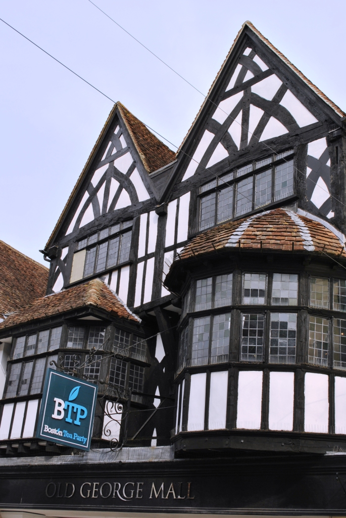 The Old George Inn